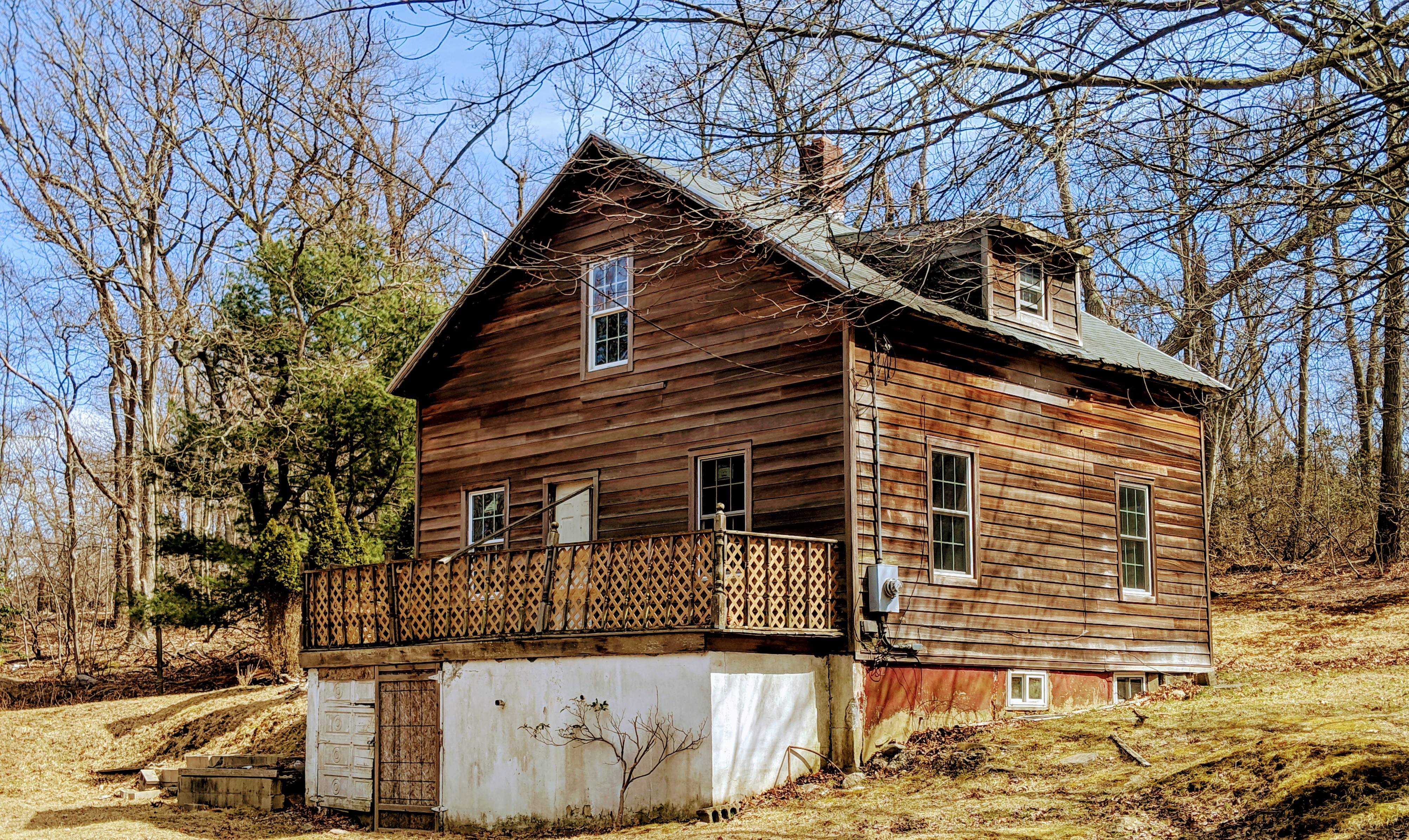 Currently owned by Bethel AME, it was home to one of the first pastors from the time the church was burned and rebuilt in 1909 til the 30's